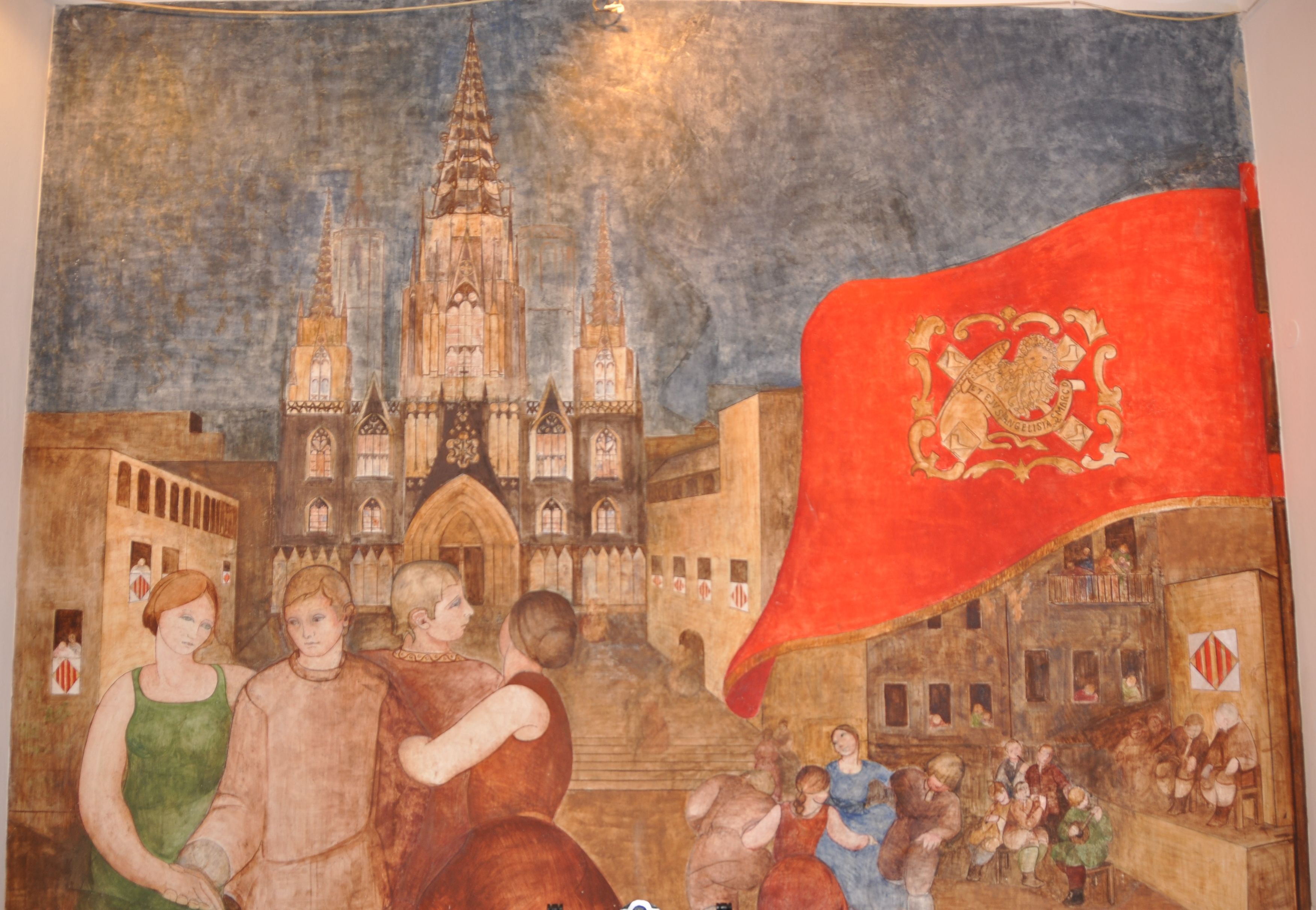 Barcelona Shoe Museum Wall painting representing a celebration in front of the Cathedral of Barcelona. Saint Mark flag witth the Lion of saint Mark. Maria Teresa Peris Estrada painter, 1970